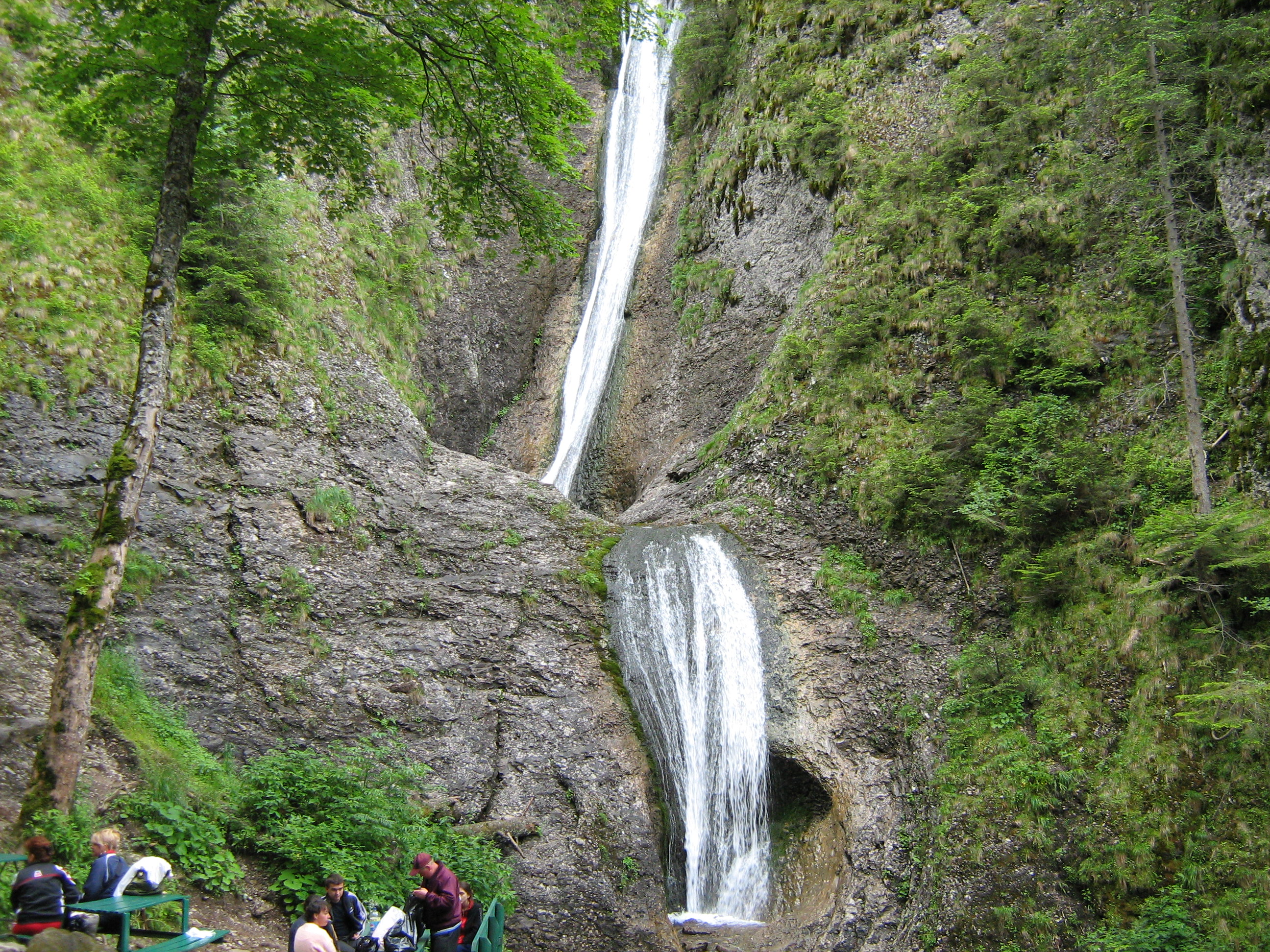 Duruitoarea waterfall in Ceahlău, Romania.